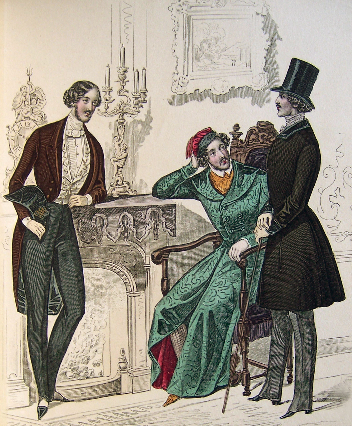 Fashion plate published in Le Follet, Paris, 1839